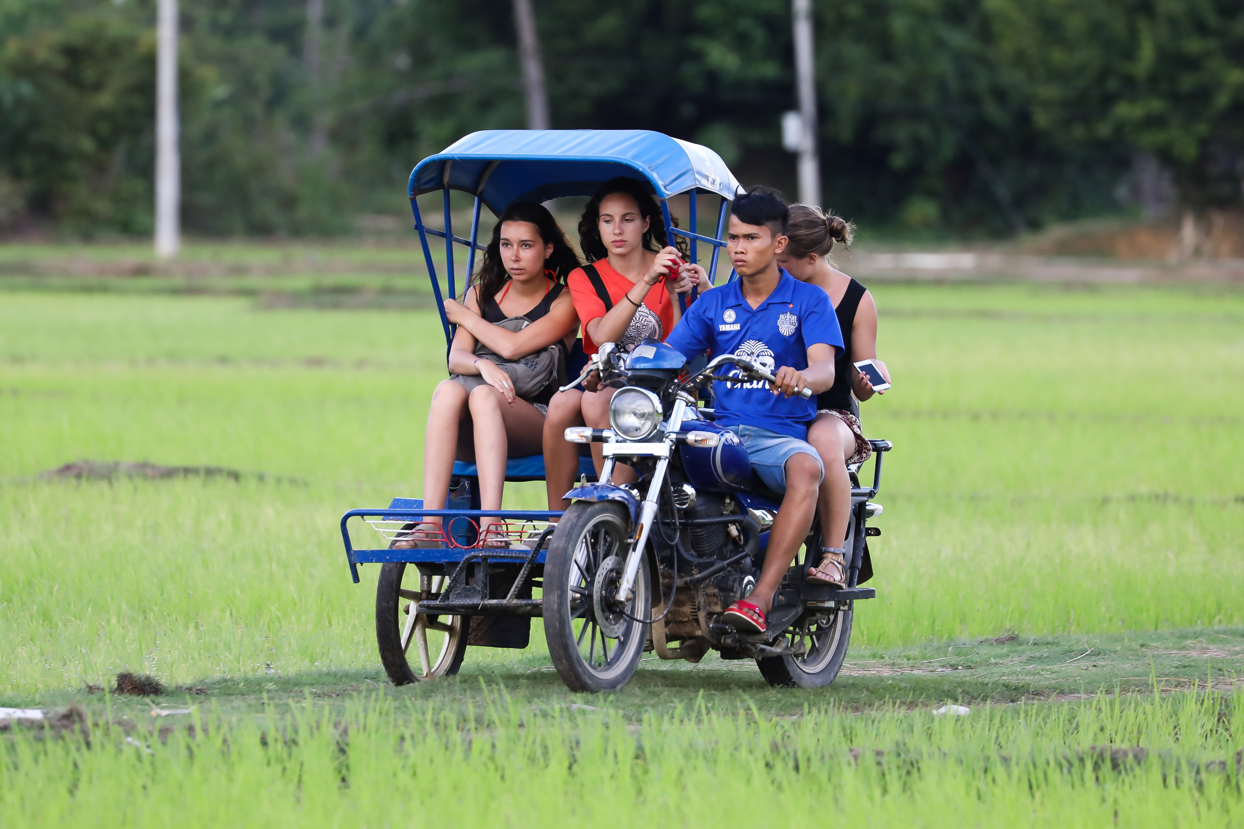 Laotian male driving his taxi sidecar in Don Det (Laos), in the middle of the paddy fields, with three western tourist ladies passengers